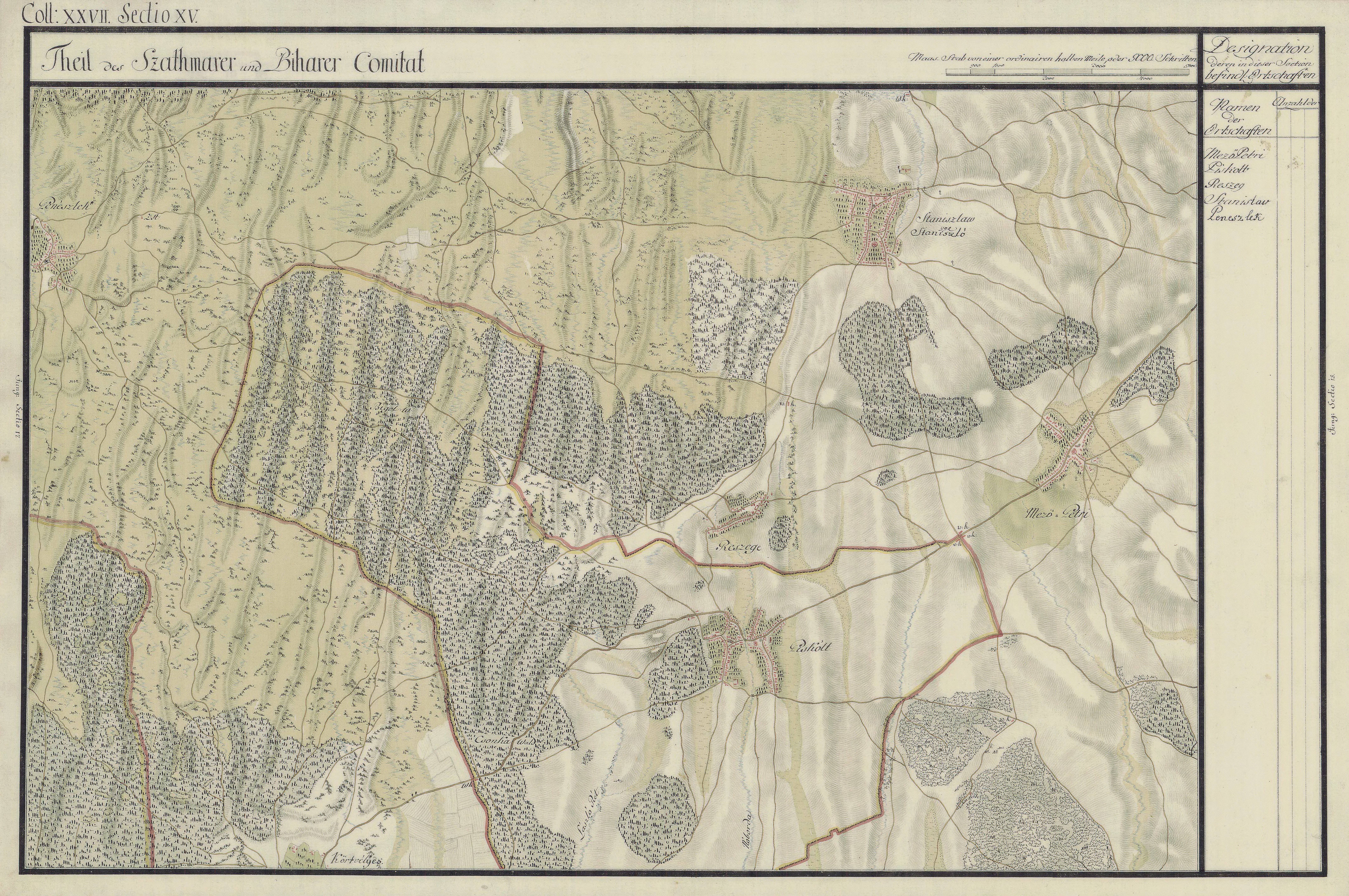 Bihor County, 1782-85. Josephinische Landesaufnahme pg.27-15